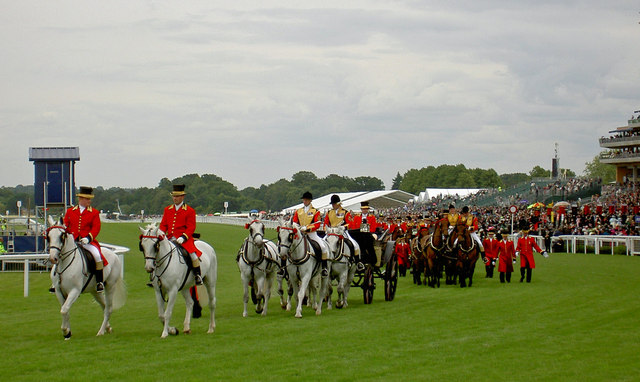 The Royal carriages leave after carrying The Queen to the races On the Friday of Royal Ascot.